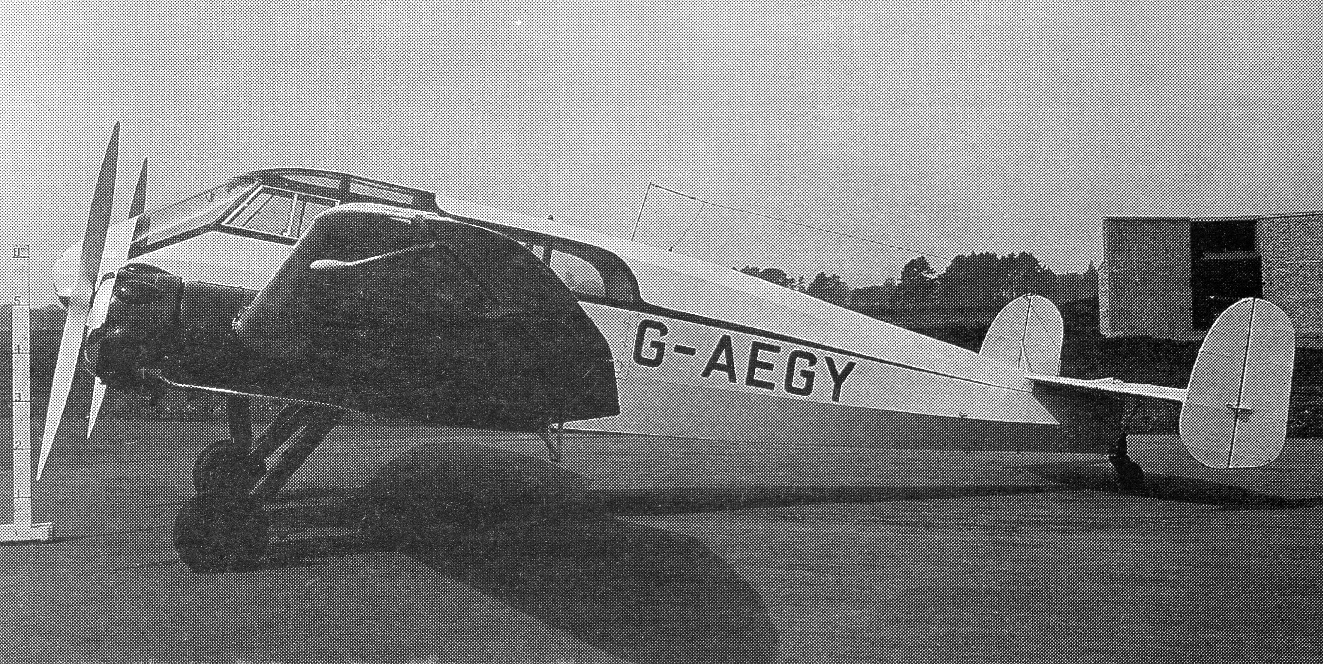 General Aircraft Monospar ST-25, May 1936